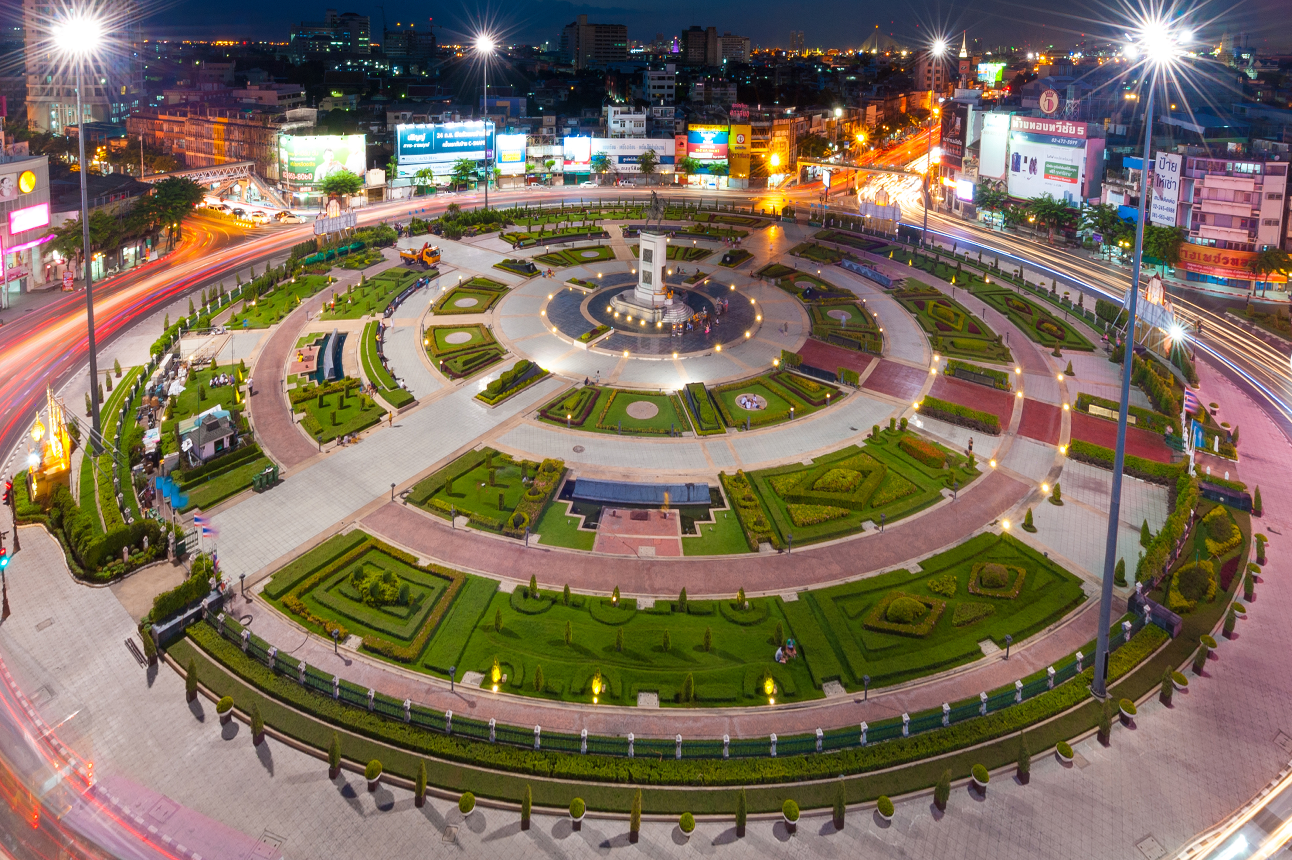 Wongwian Yai ("the big roundabout") and the statue of King Taksin, Thon Buri District, Bangkok